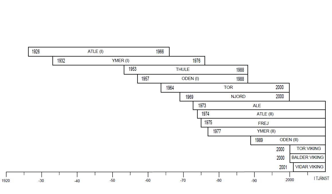 The Swedish icebreaker fleet in chronological order.